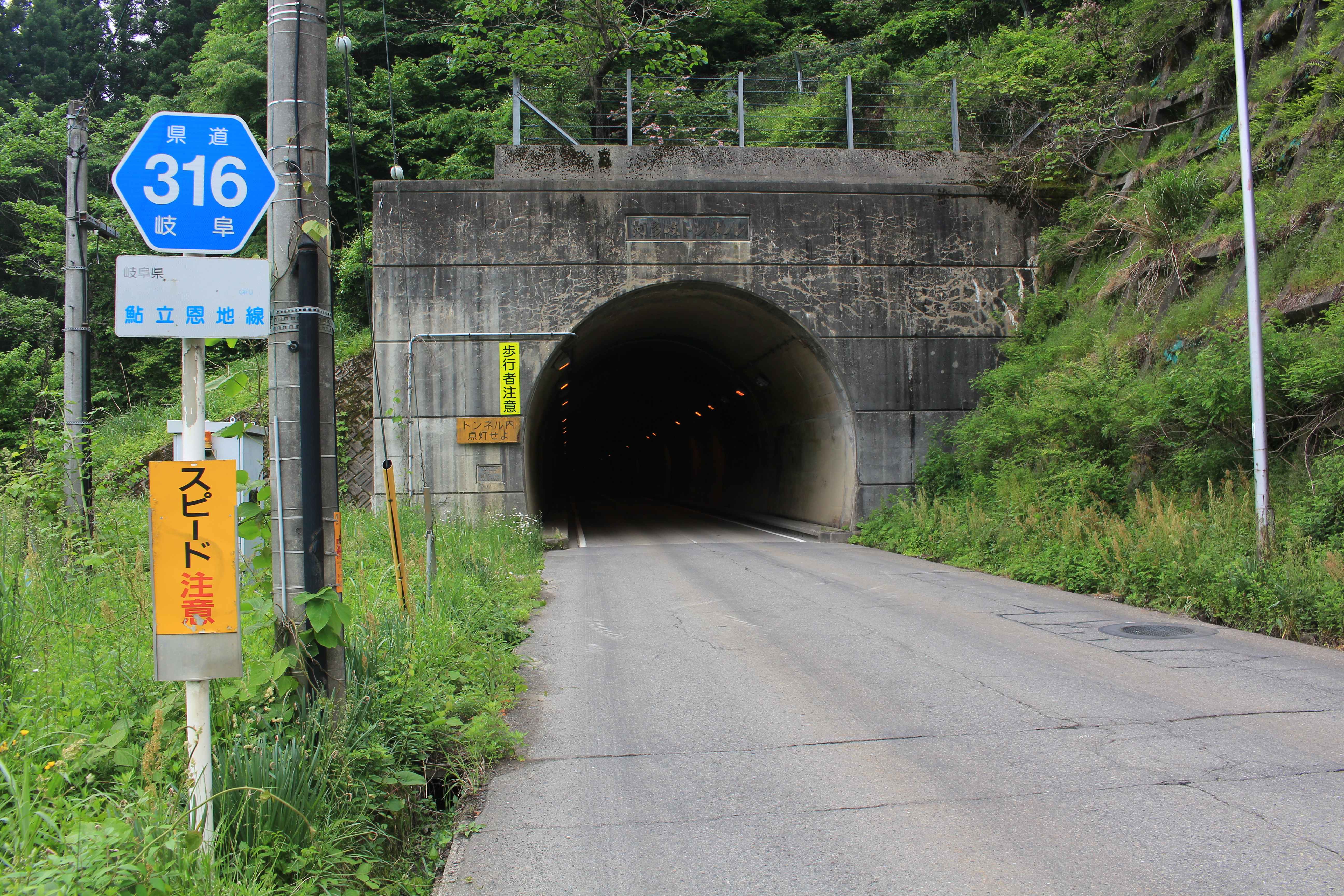 Atagi tunnel of Gifu Prefectural Road Route 316 in Atagi, Shirotori, Gujo, Gifu prefecture, Japan.